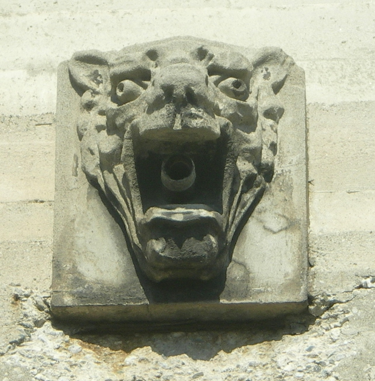 Exterior decoration on Municipal Warehouse No. 1, San Pedro, California